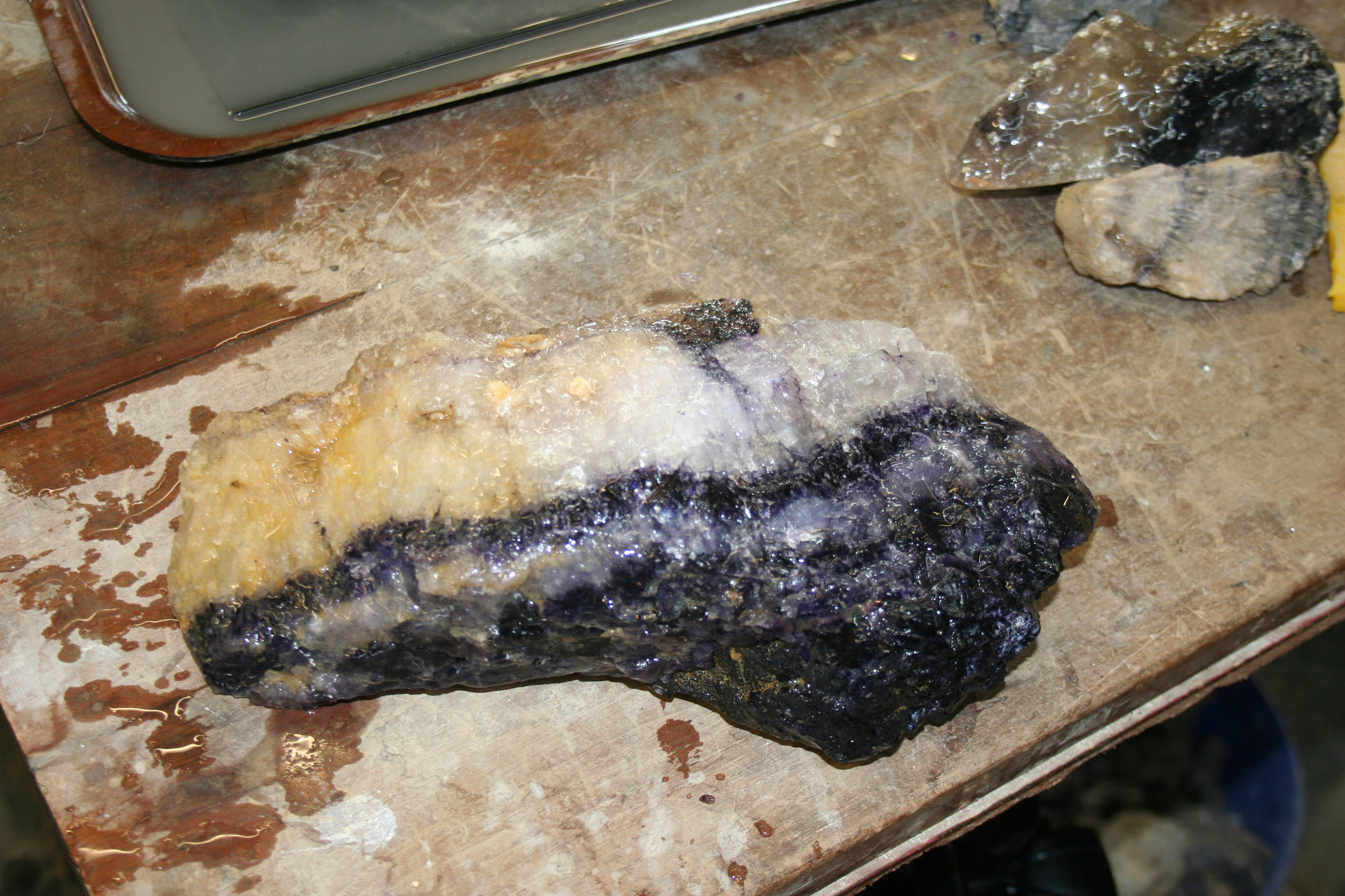 A piece of Derbyshire Blue John in the workshop at Treak Cliff Cavern.